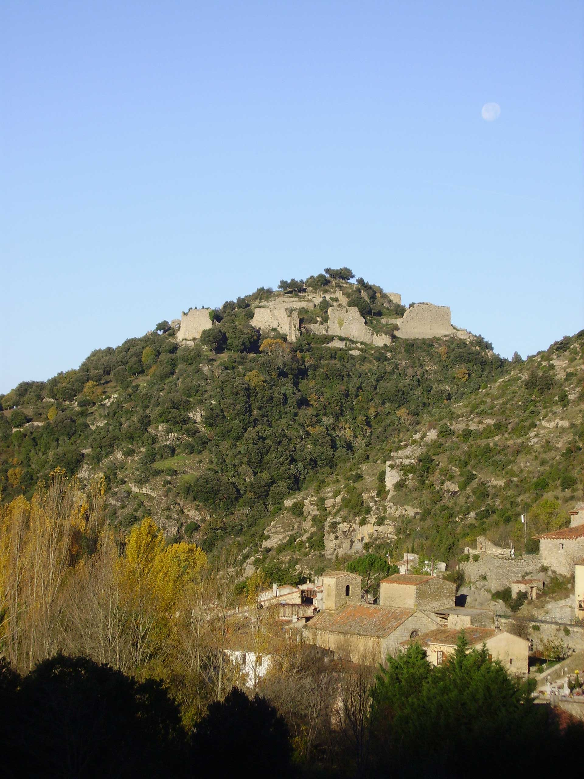 The little village of Termes (Aude, Corbières area), with the ruins of the castle, in a view from the east.